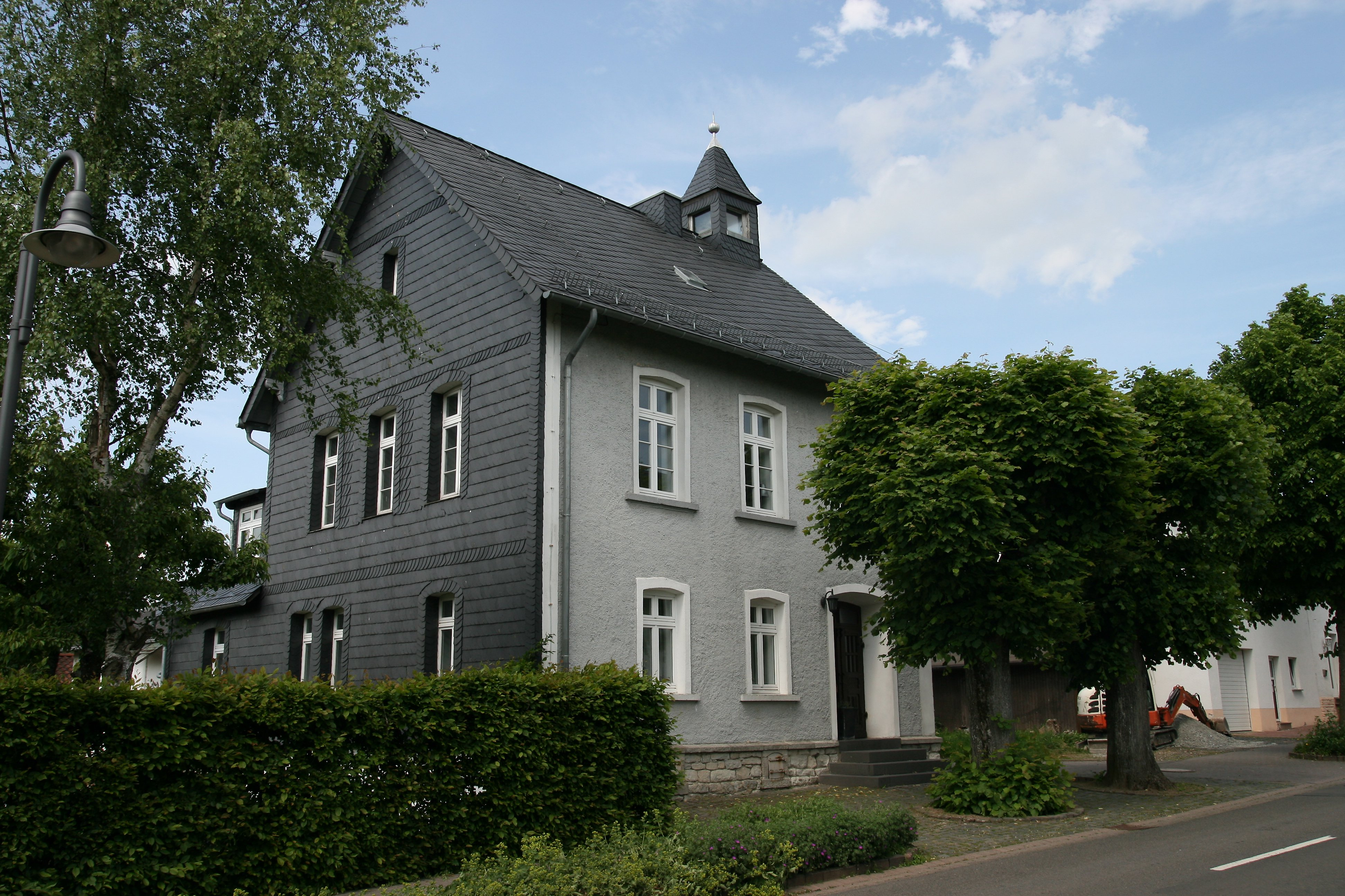 Old school in Steinen, Westerwald, Rhineland-Palatinate, Germany